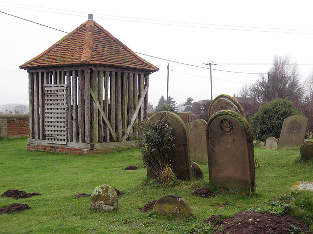 Bell-cage for single bell, Wrabness church